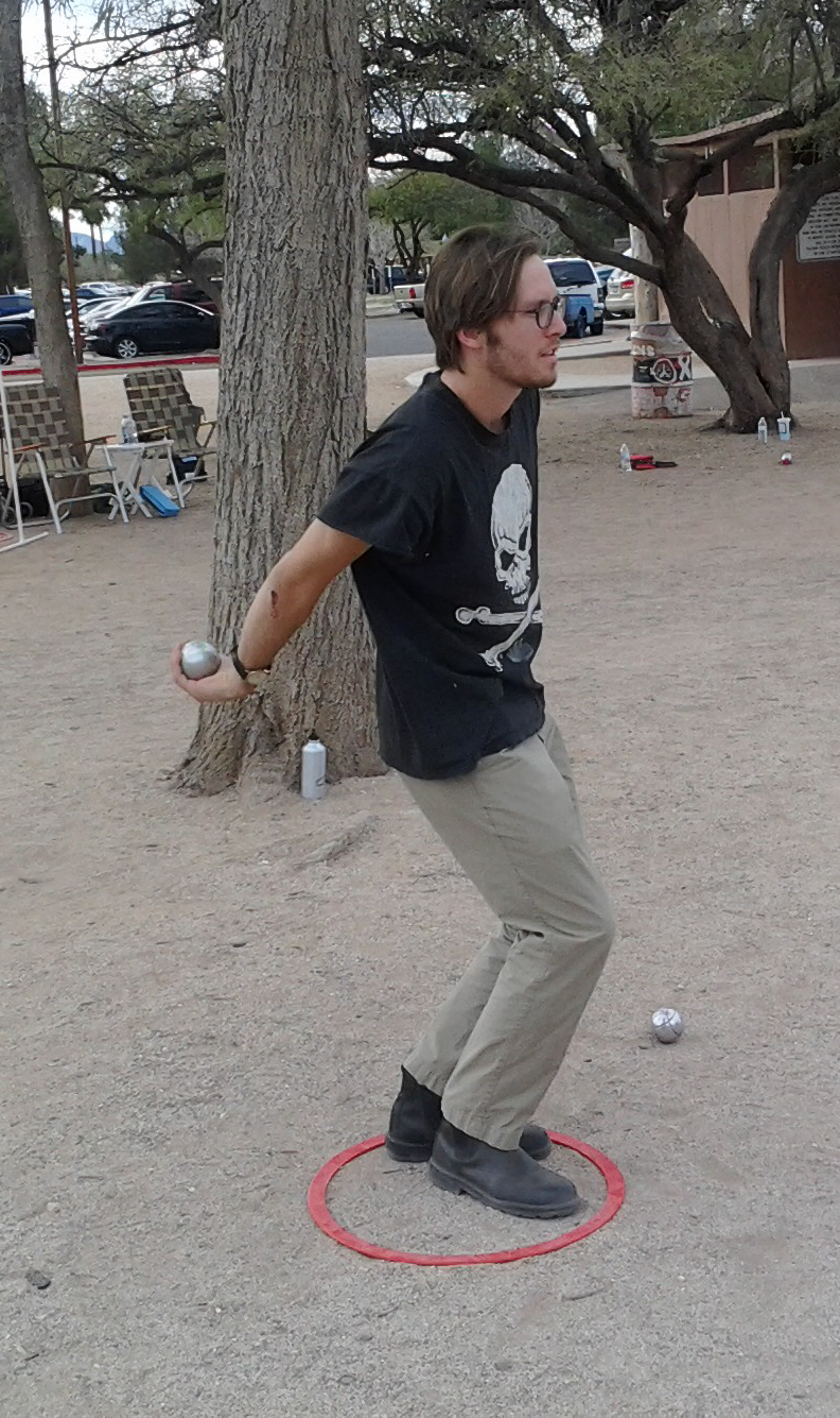 Picture of a petanque player throwing from a prefabricated circle.